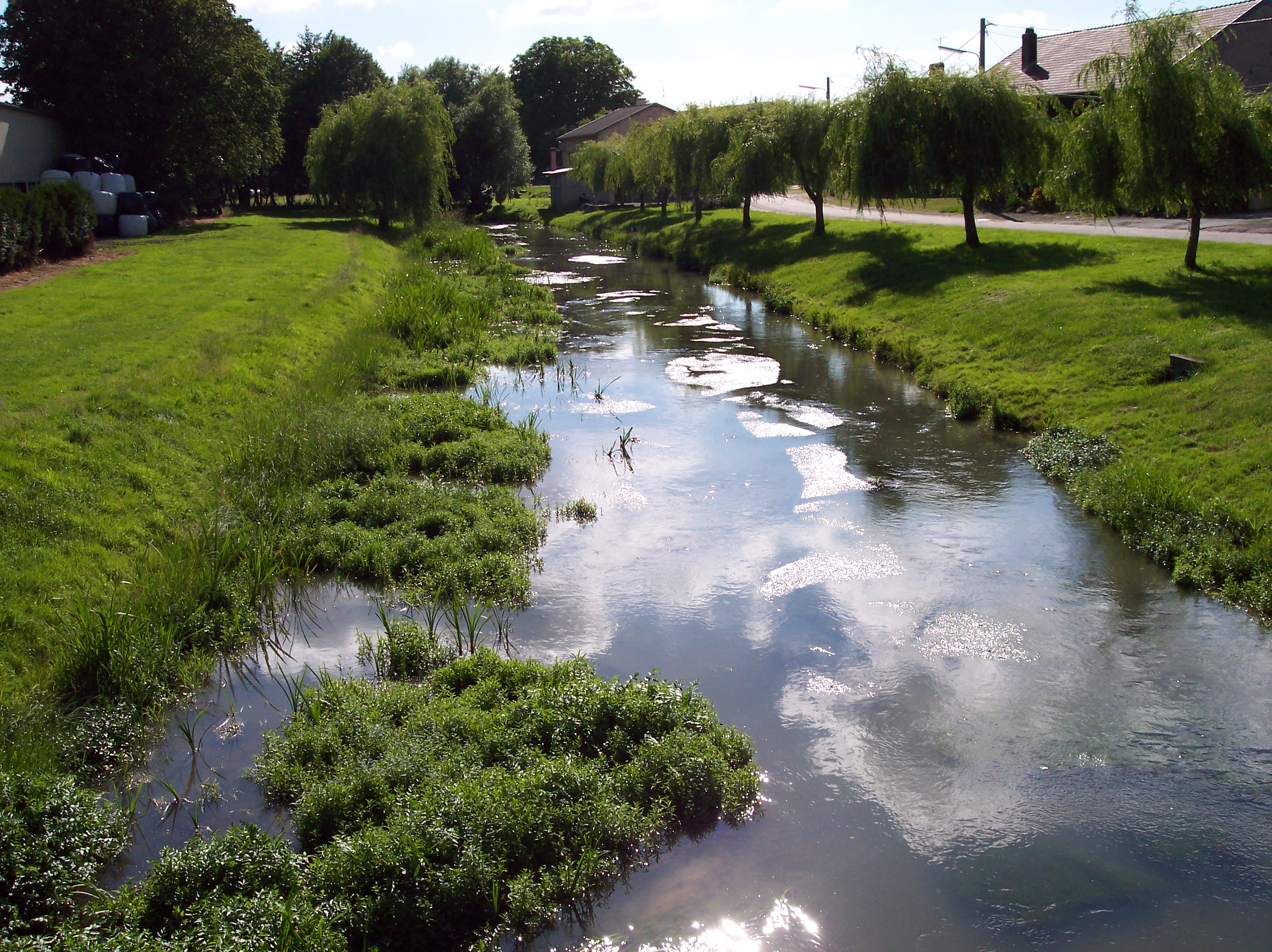 Wiseppe river in Wiseppe (village), Meuse (département), Lorraine, France.